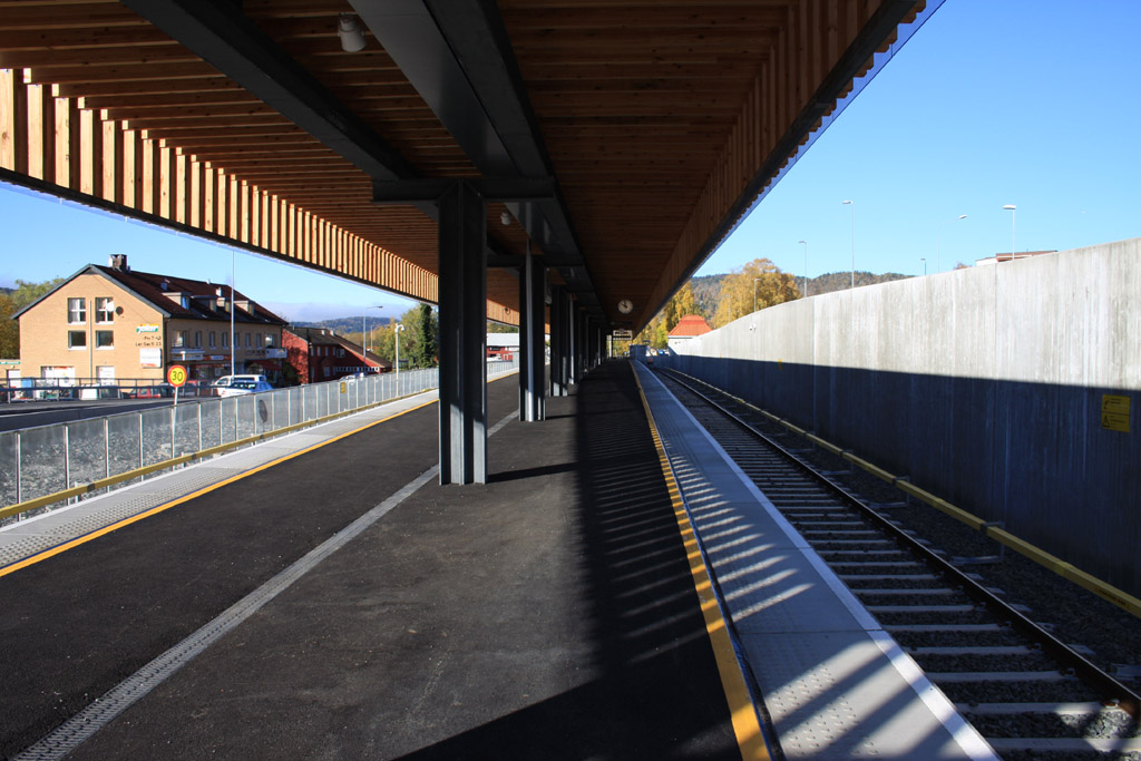 Kolsas Metrostation seen towards the termini end of the station.